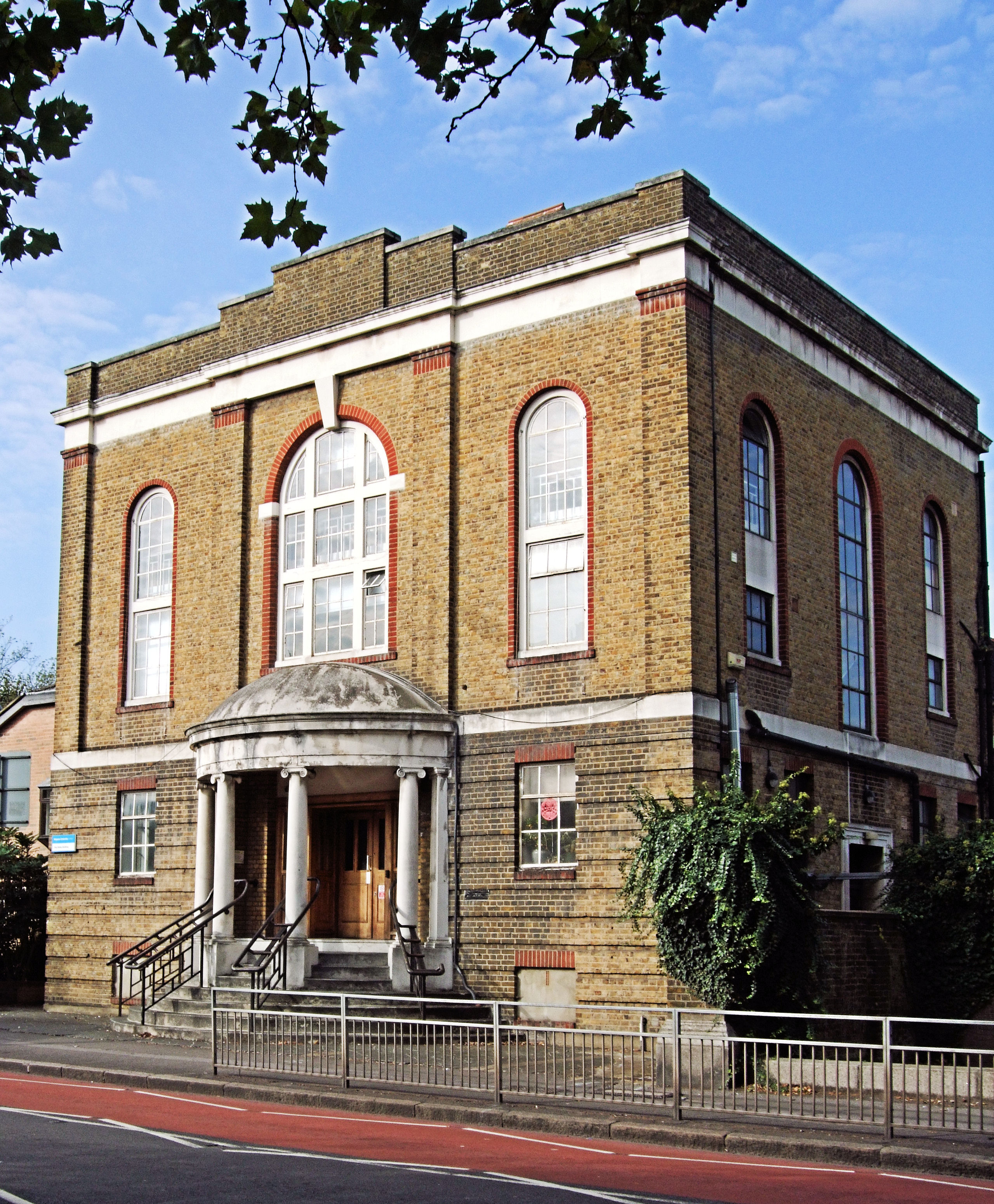 The Reg Bailey Building, Kingston-upon-Thames - London.